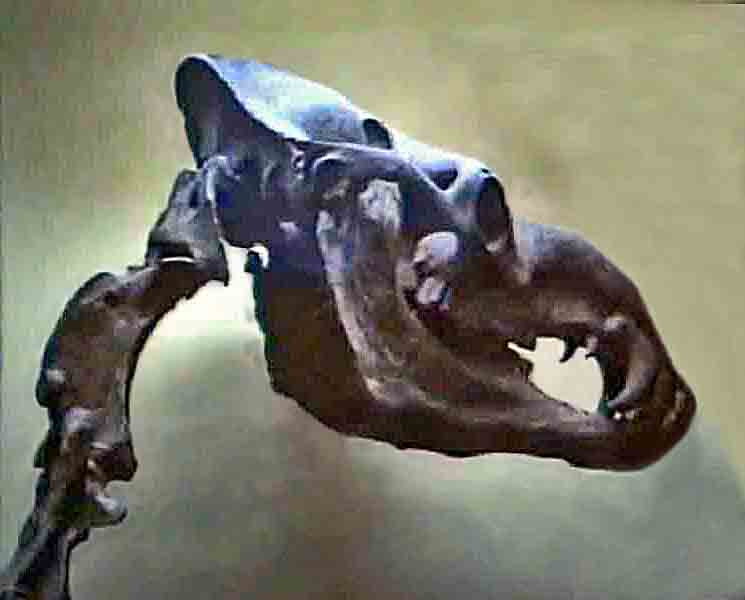 Skull of Titanotylopus at the Peabody Museum of Natural History, Yale